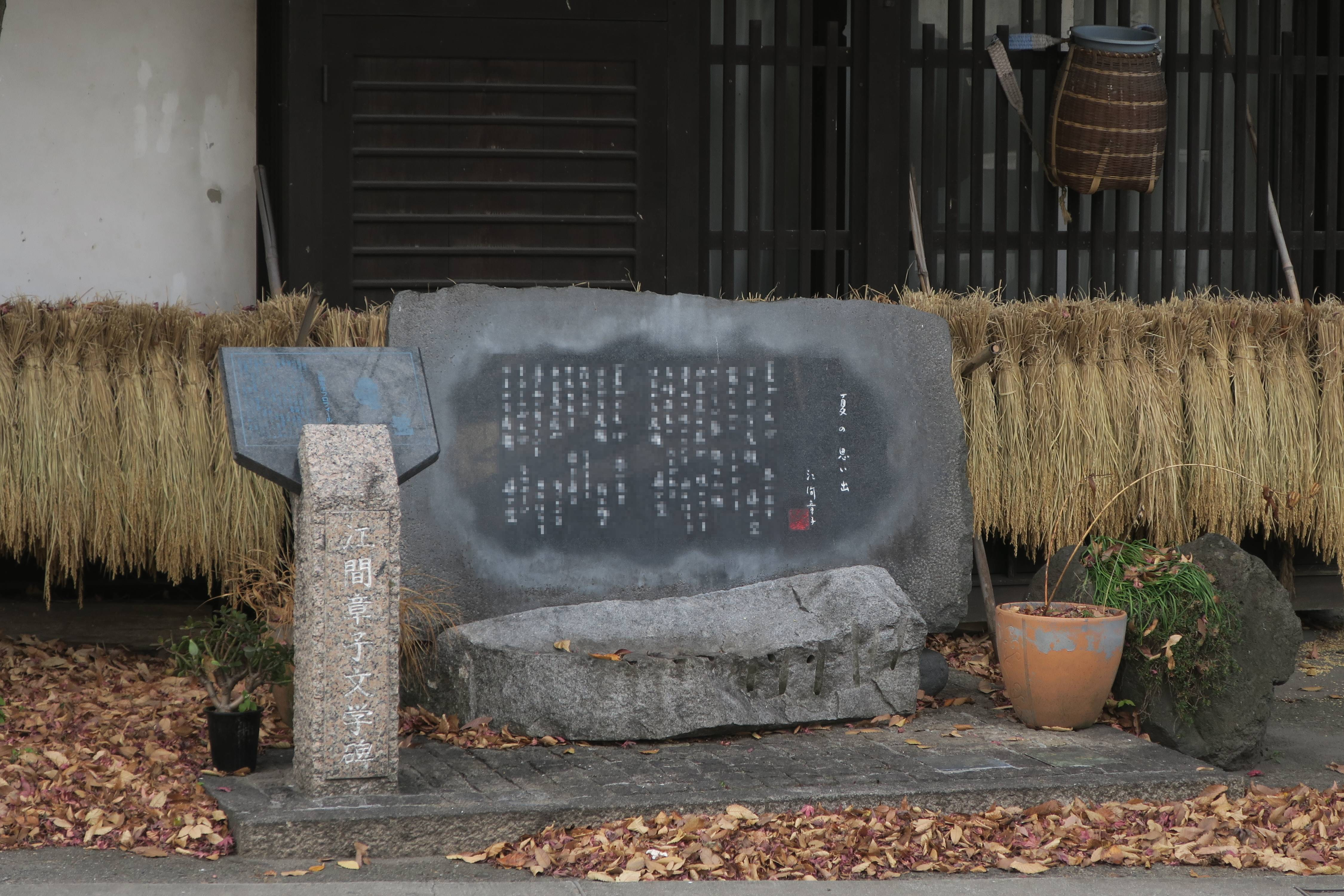 Umedaya-Ryokan Ema Shoko monument (Katashina).